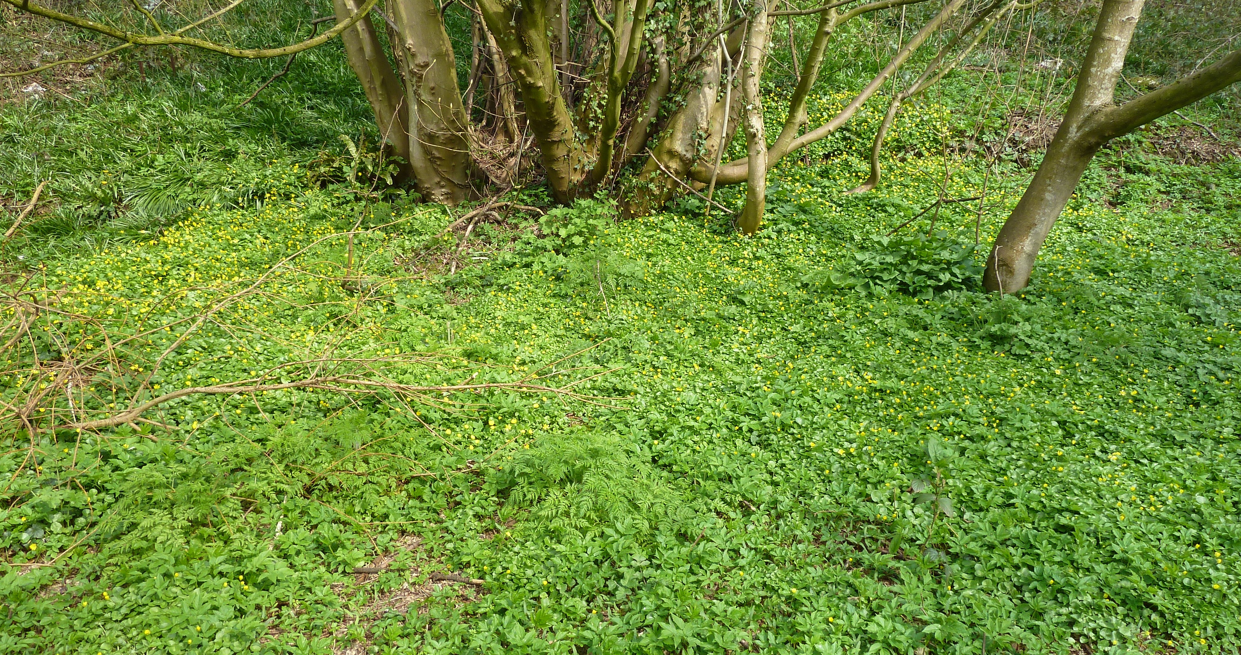 Hilden, Co. Antrim, Ireland April. Celandine